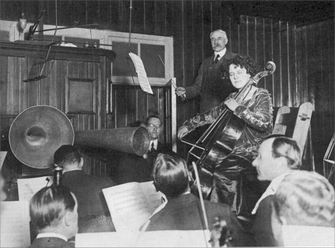 HMV publicity photograph, showing the cellist Beatrice Harrison and the composer Edward Elgar recording his Cello Concerto at HMV's studios, using the acoustic recording process. Scanned from reproduction in Early Music